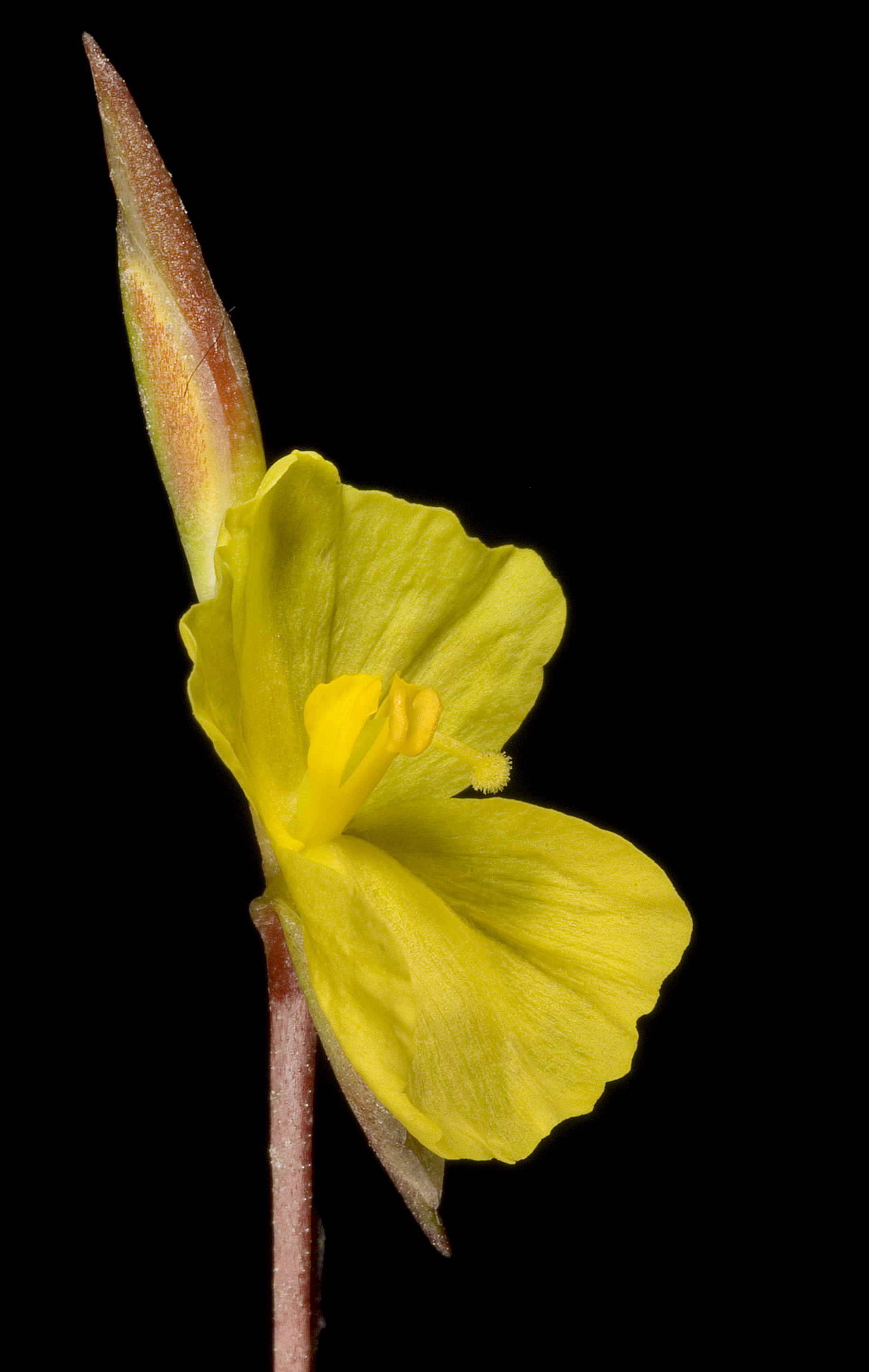 KL Brown 806